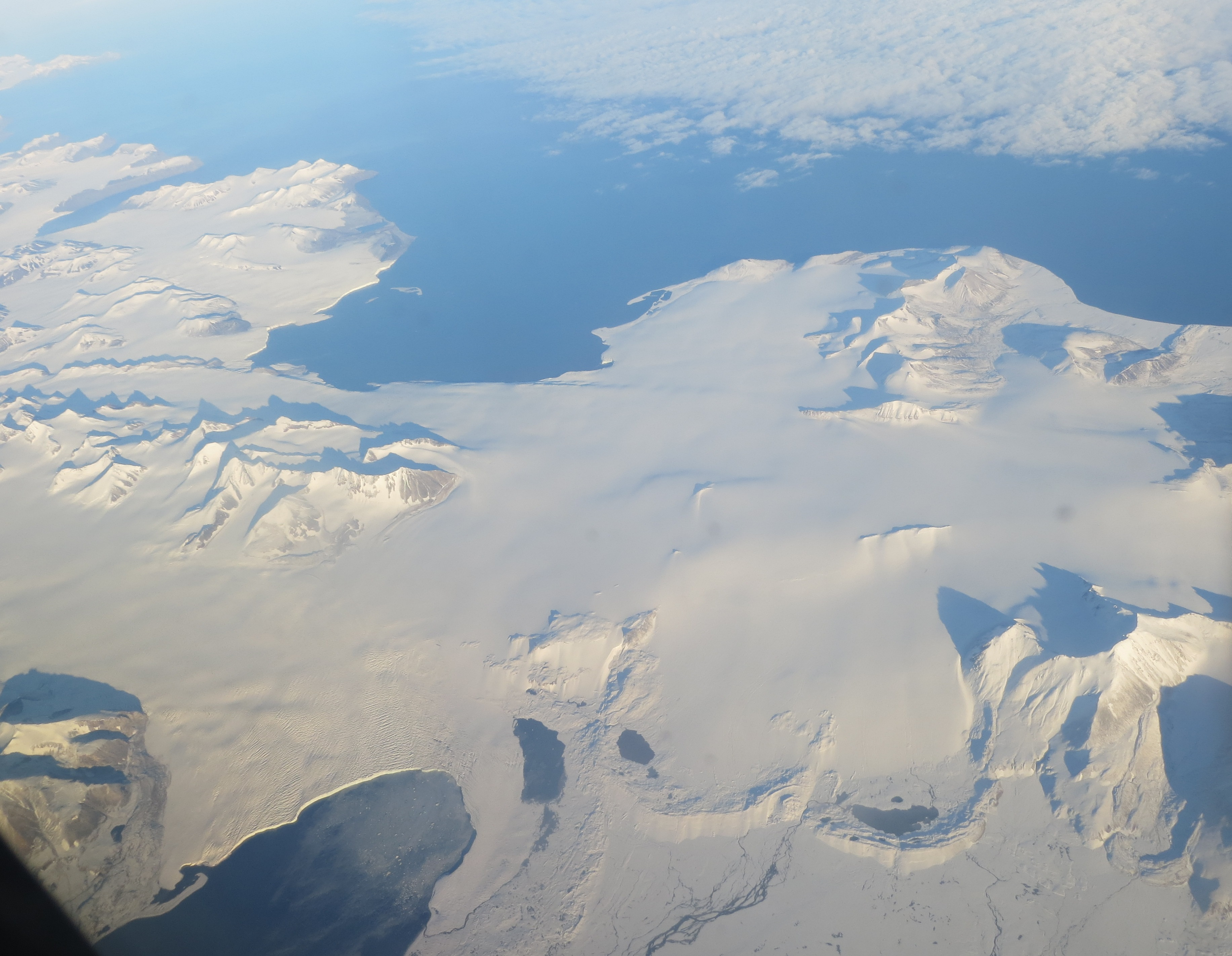 Aerial photo, from the west towards east, of the Sørkapp Land southernmost parts of Spitsbergen, Svalbard.